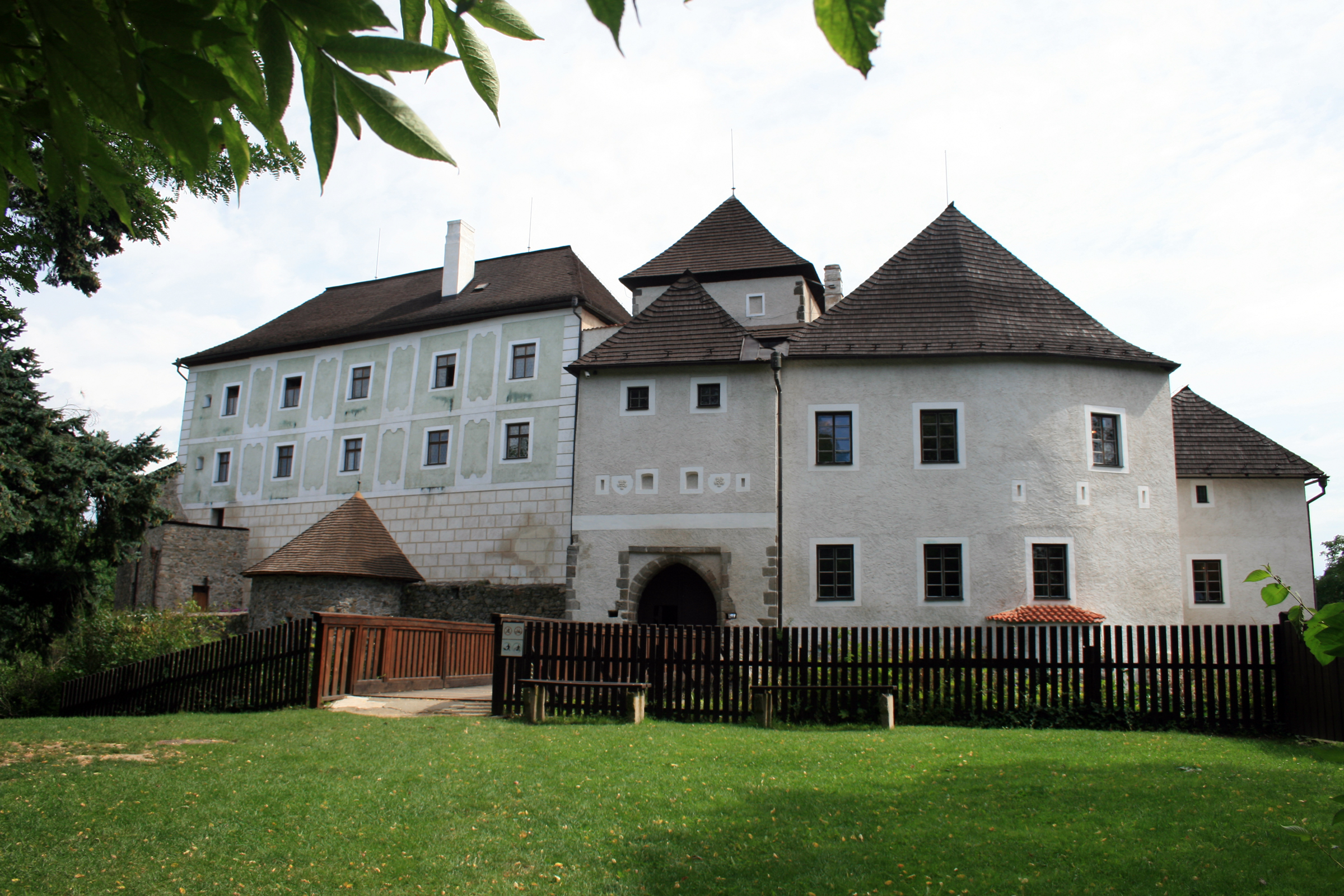 Old castle in Nové Hrady, South Bohemia, Czech Republic